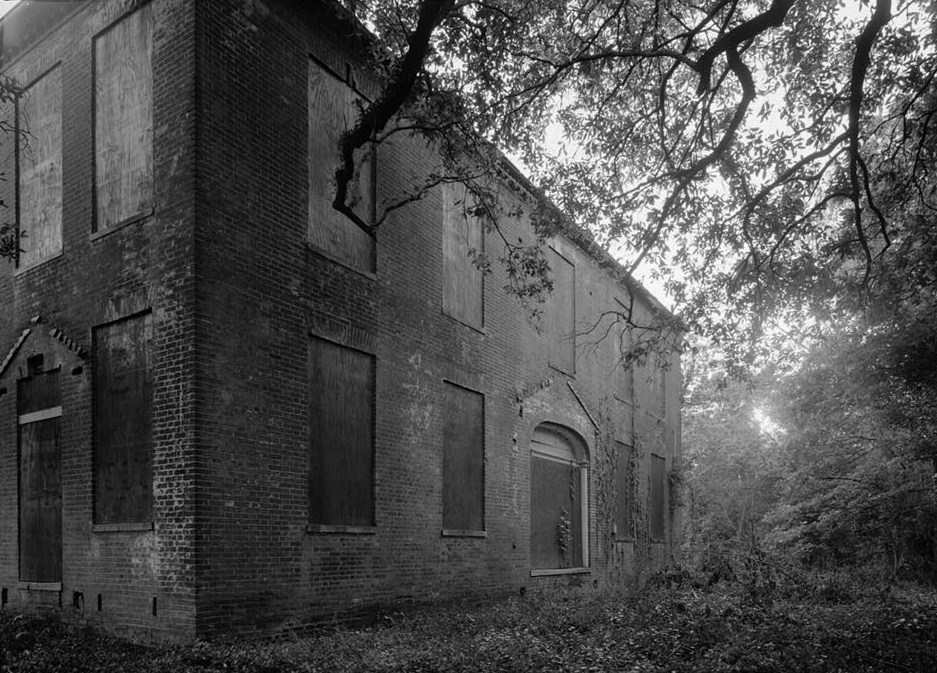 Van Dorn House, Van Dorn Drive, Port Gibson (Claiborne County, Mississippi) cropped, This file comes from the Historic American Buildings Survey (HABS), Historic American Engineering Record (HAER) or Historic American Landscapes Survey (HALS). These are programs of the National Park Service established for the purpose of documenting historic places. Records consist of measured drawings, archival photographs, and written reports. When reusing please credit: Library of Congress, Prints & Photographs Division, MS-205 This tag does not indicate the copyright status of the attached work. A normal copyright tag is still required. See Commons:Licensing. This work is in the public domain in the United States because it is a work prepared by an officer or employee of the United States Government as part of that person’s official duties under the terms of Title 17, Chapter 1, Section 105 of the US Code. Note: This only applies to original works of the Federal Government and not to the work of any individual U.S. state, territory, commonwealth, county, municipality, or any other subdivision. This template also does not apply to postage stamp designs published by the United States Postal Service since 1978. (See § 313.6(C)(1) of Compendium of U.S. Copyright Office Practices). It also does not apply to certain US coins; see The US Mint Terms of Use. This file has been identified as being free of known restrictions under copyright law, including all related and neighboring rights.